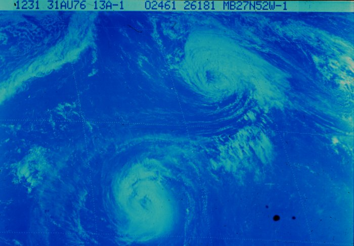 Taken from NOAA photo library.